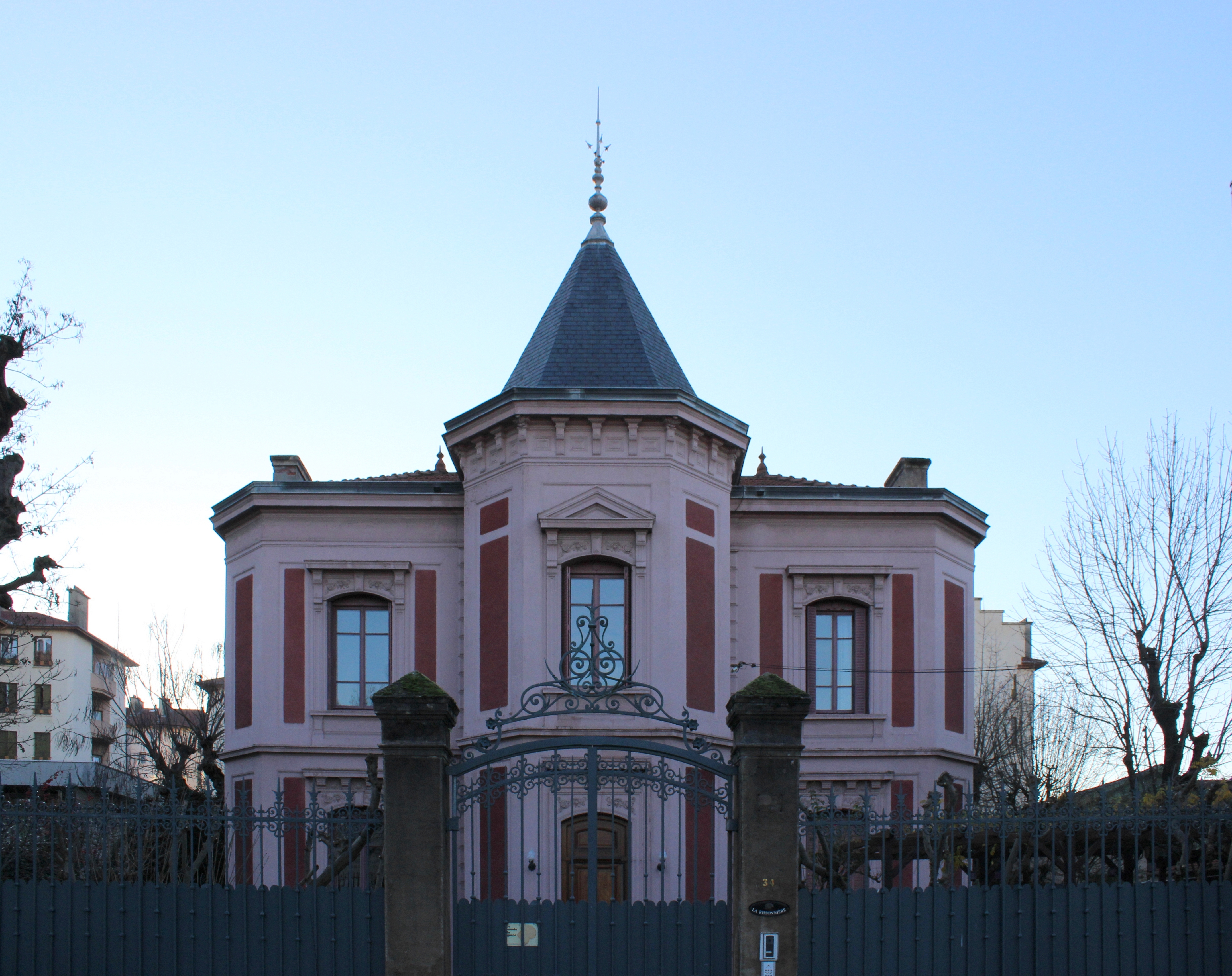 This large Montchat house is view on its front facade. It includes a floor. The ground floor has three arched doorways surmounted upstairs three arched windows also. The advanced center, takes the form of a octognale turret. The roof in the center seems to bee a bell tower, it is flat on the sides. This facade alternates decorated with red and white vertical stones. In the background we see on the right and left some buildings.